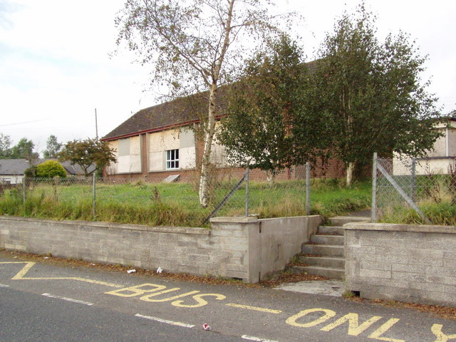 Tullyroan Primary School Derryscollop Road Dungannon County Tyrone now closed